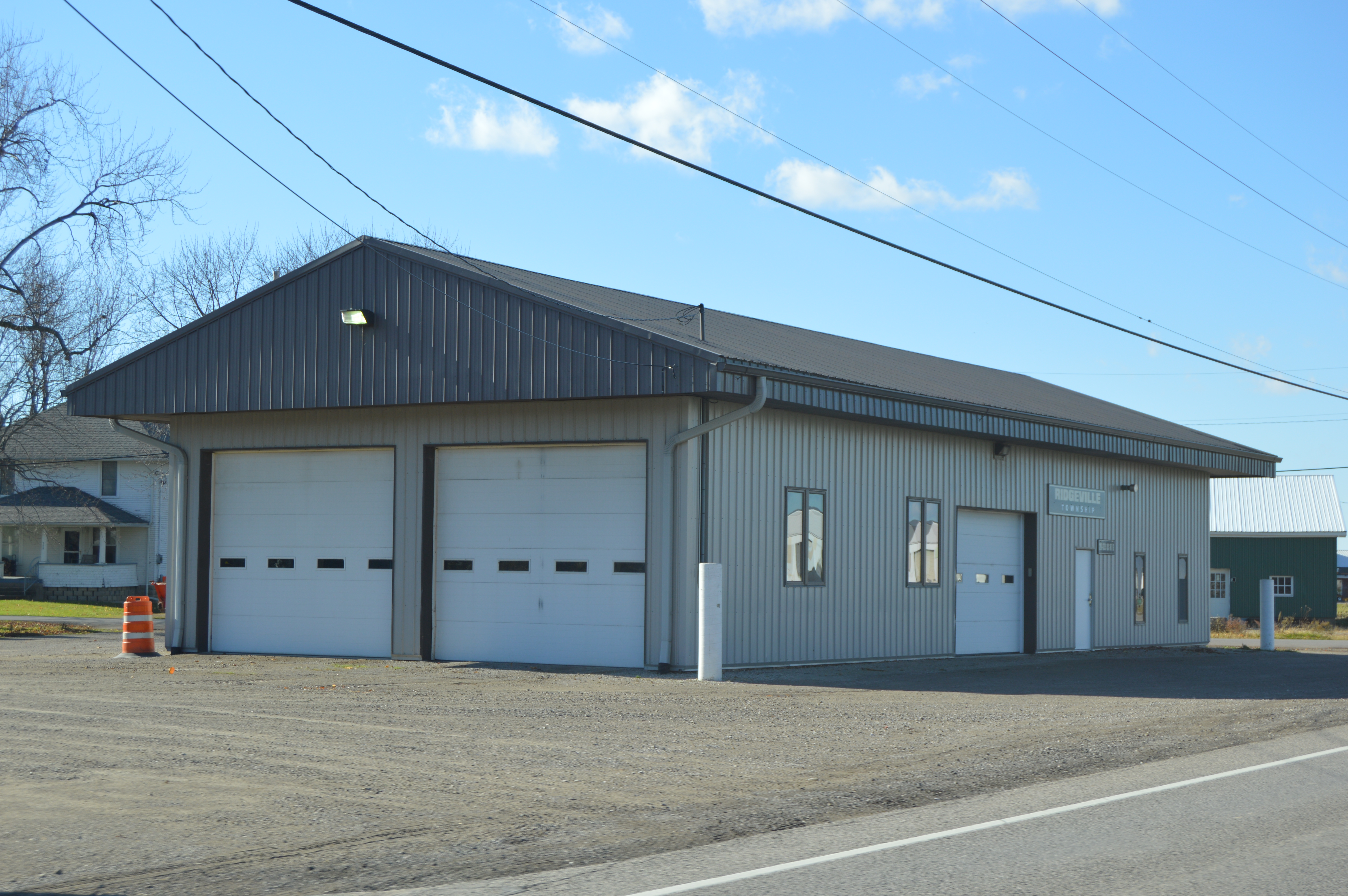 Front and eastern side of the Ridgeville Township Hall, located at the intersection of U.S. Route 6 and First Street in Ridgeville Corners, Ohio, United States.